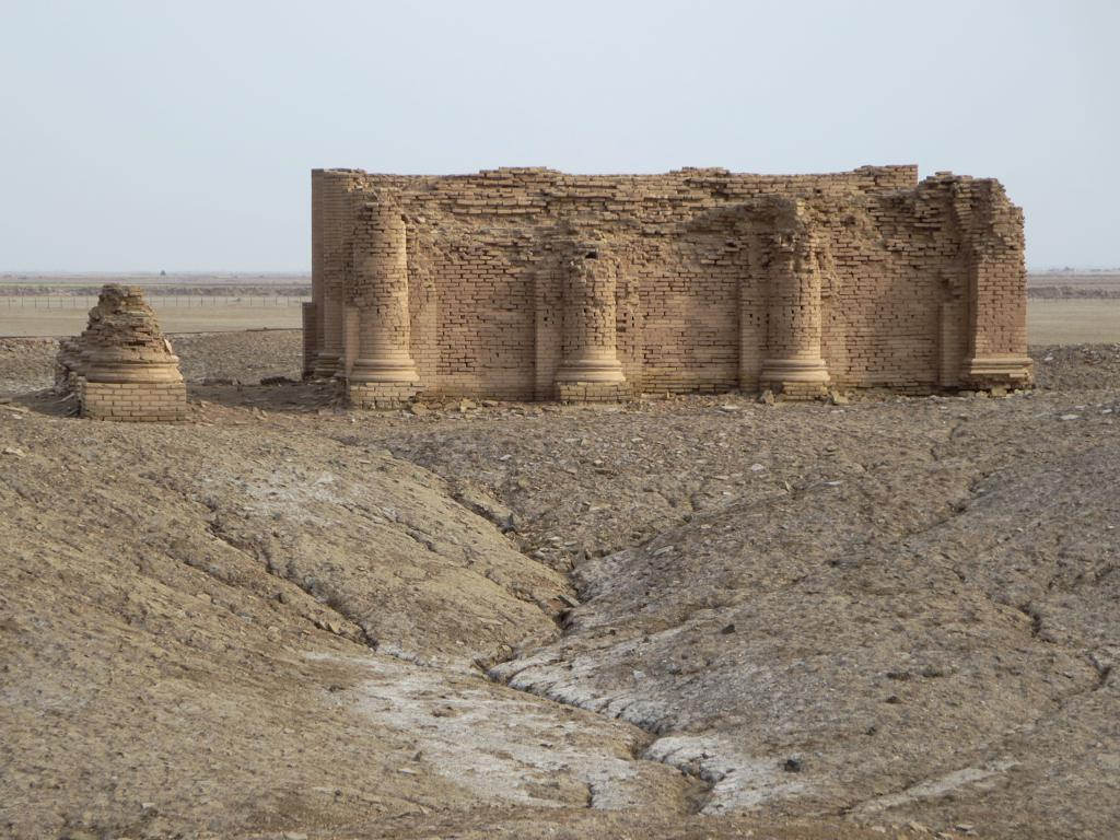 The Parthian Temple of the Gareus at Uruk (Warka), 39 km east of Samawah, Iraq, was built before 110 AD and is thus thousands of years younger than the surrounding Sumerian remains.